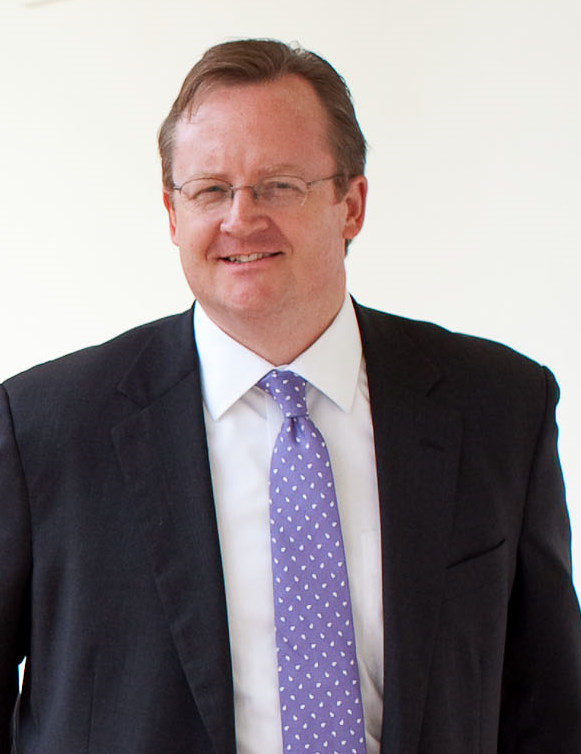 Hon. Press Secretary Robert Gibbs on Air Force Two in 2008.